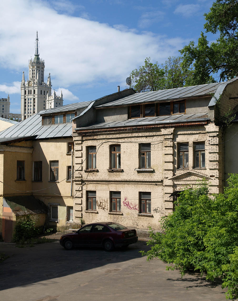 3, Serebryanichesky Lane, Moscow - back yard revealing steep hills